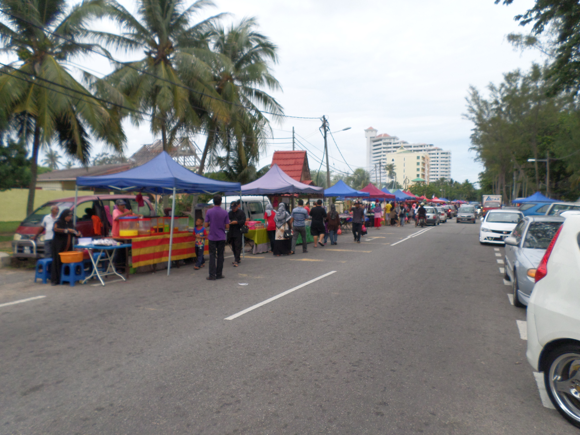 Puteri Beach Night Market, Puteri Beach, Tanjung Kling, Malacca, MalaysiaBahasa Melayu: Pasar Malam Pantai Puteri, Pantai Puteri, Tanjung Kling, Melaka, Malaysia